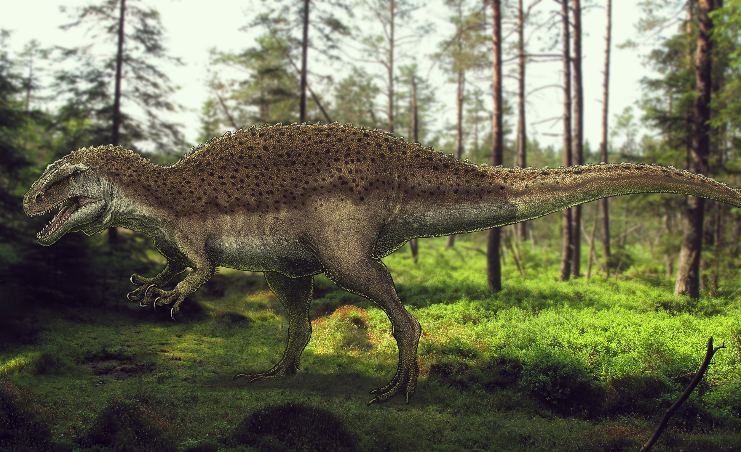 Life restoration of Veterupristisaurus milneri in a woodland floor. '